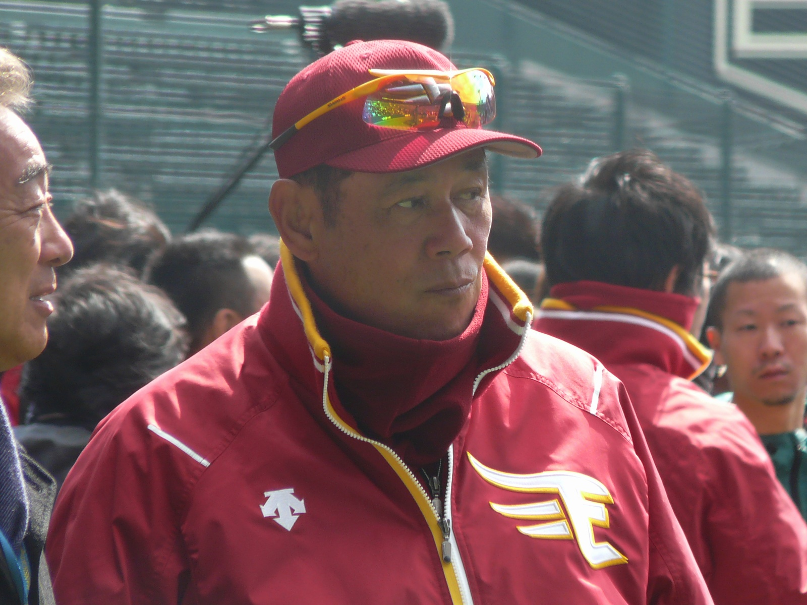 Kōichi Tabuchi, coach of the Tohoku Rakuten Golden Eagles, at Hanshin Koshien Stadium.